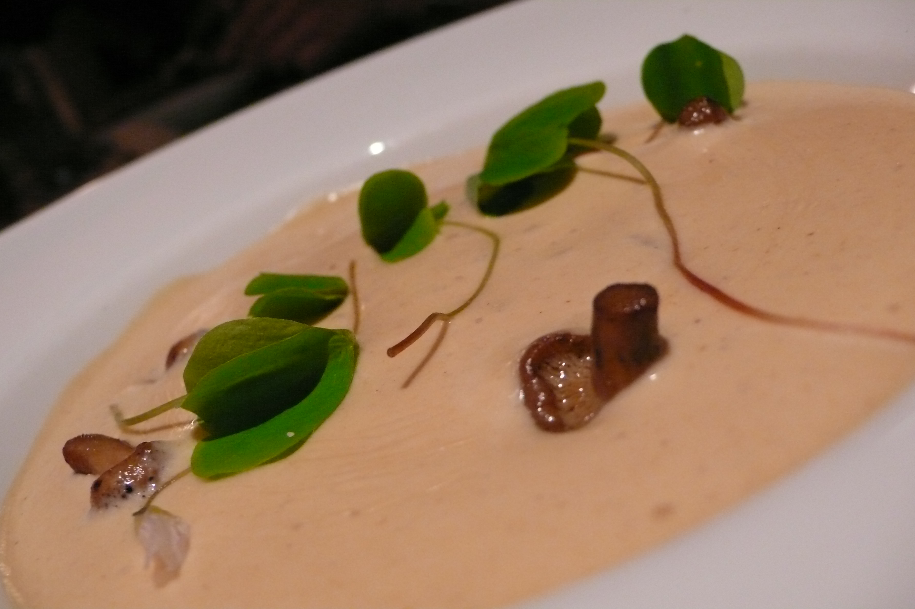 Velouté sauce with Calocybe gambosa (mushroom)